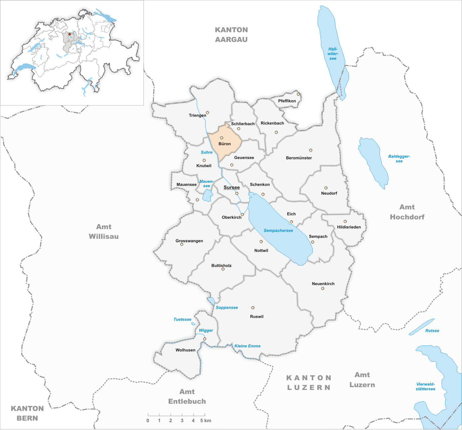 Municipality Büron